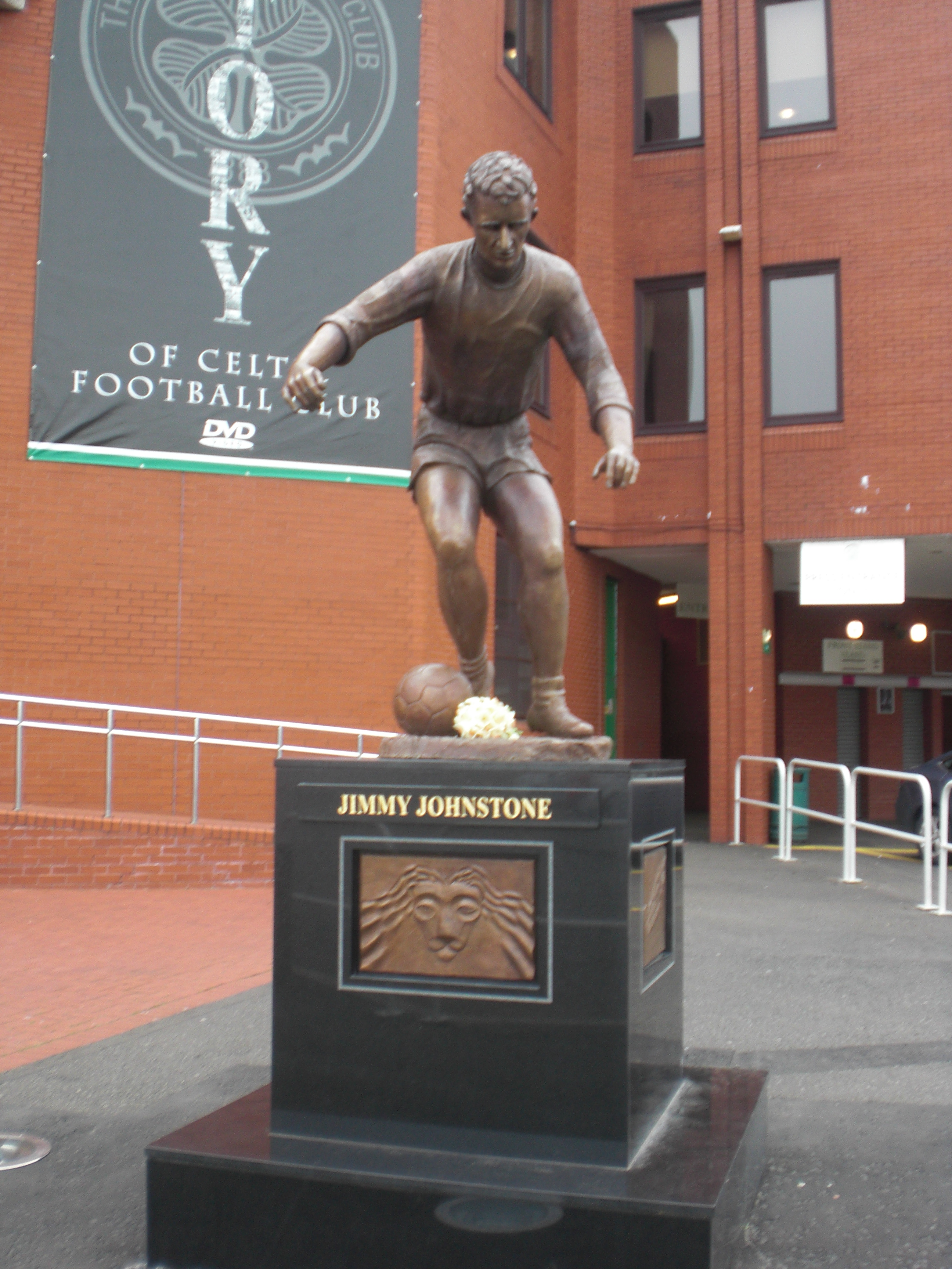 Jimmy Johnstone, former footballplayer for Glasgow Celtic FC. The Statue is located outside the main entrance for Parkhead Stadium, Glasgow.